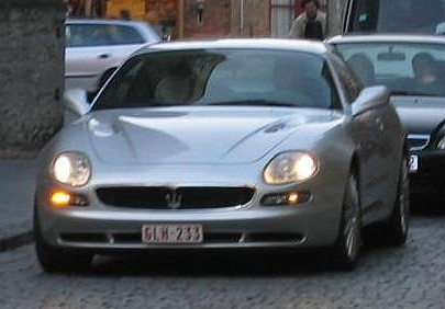 Maserati 3200 GT Photographed in Brugge, Belgium.